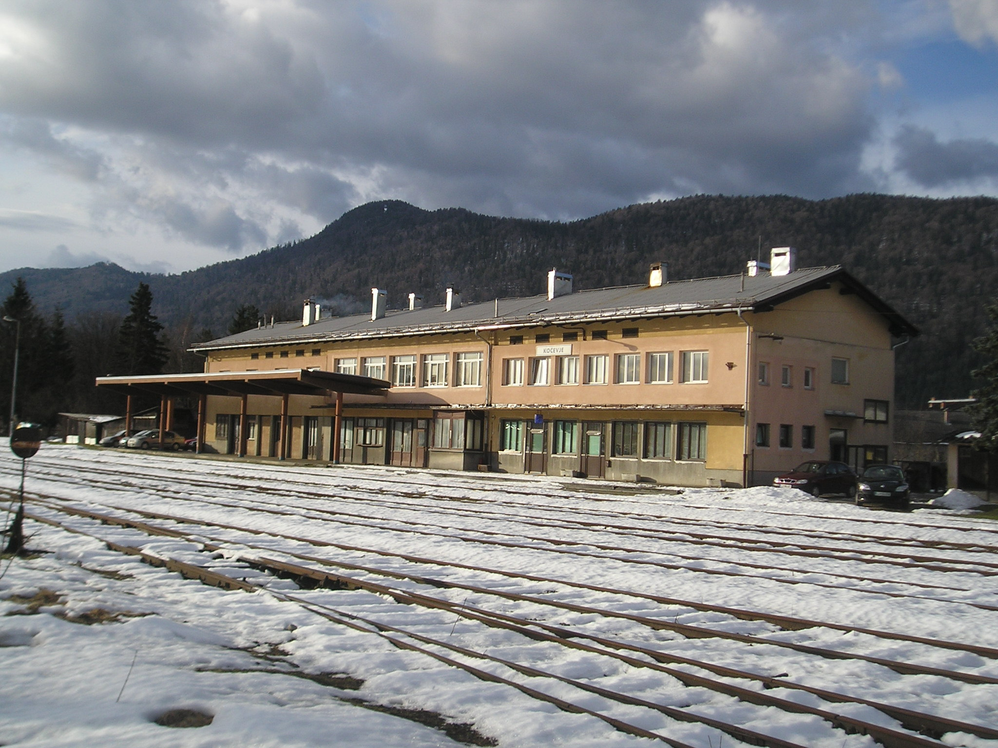 Train station in Kočevje, Slovenia